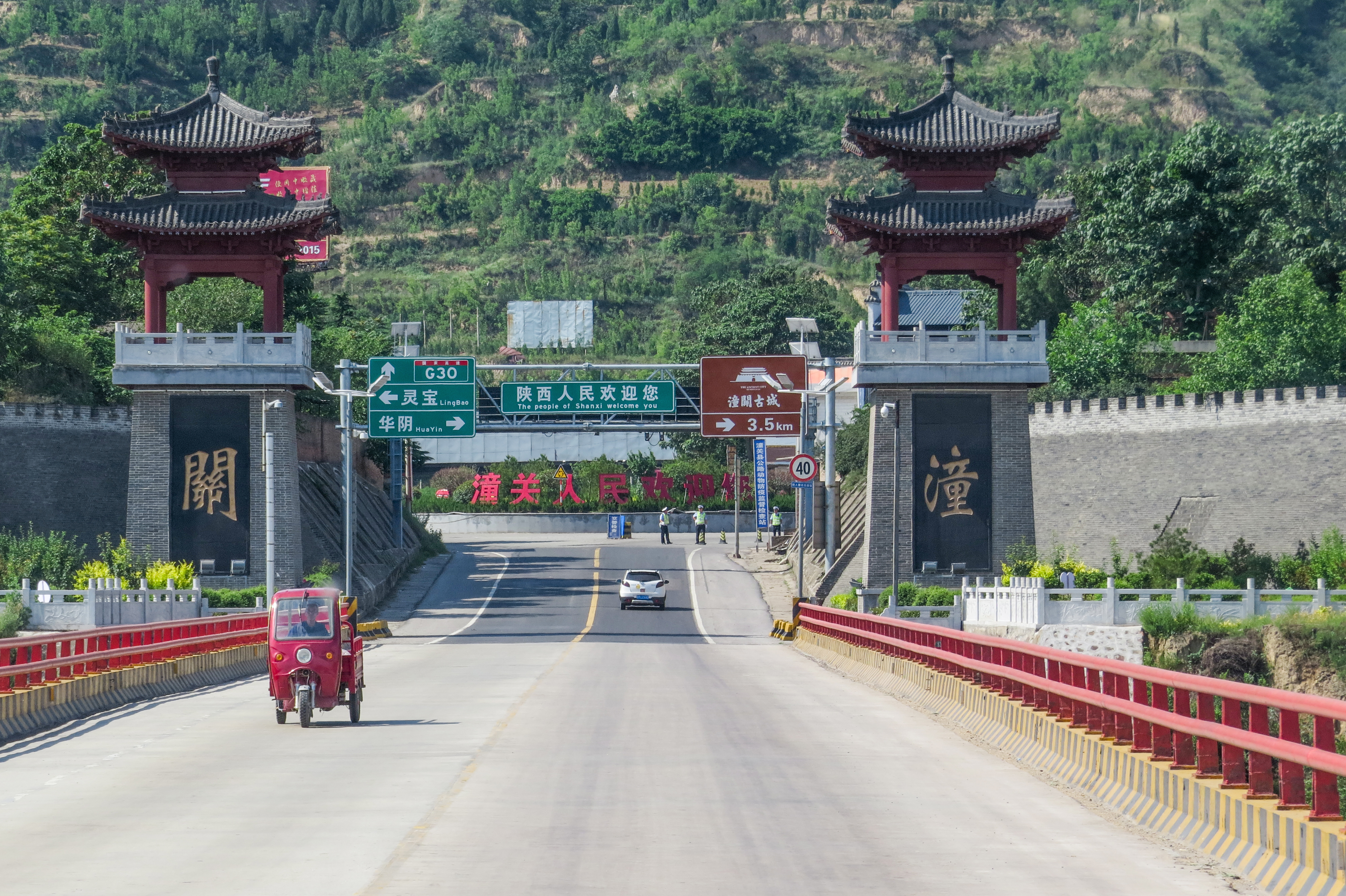 Feat. border between Shanxi and Shaanxi.